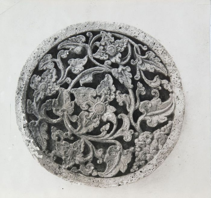 Relief at the Mantingan mosque